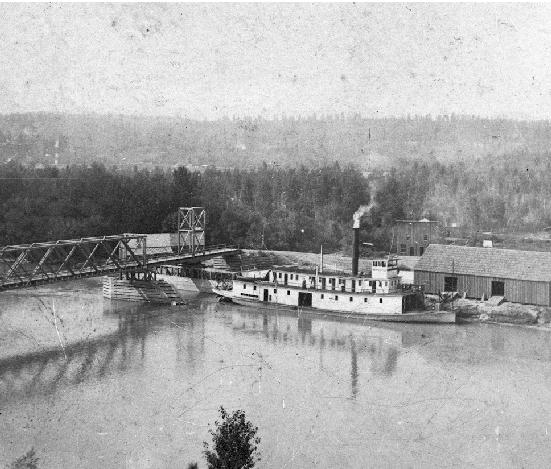 North Star (sternwheel steamboat) at Fort Steele, British Columbia, ca 1900.